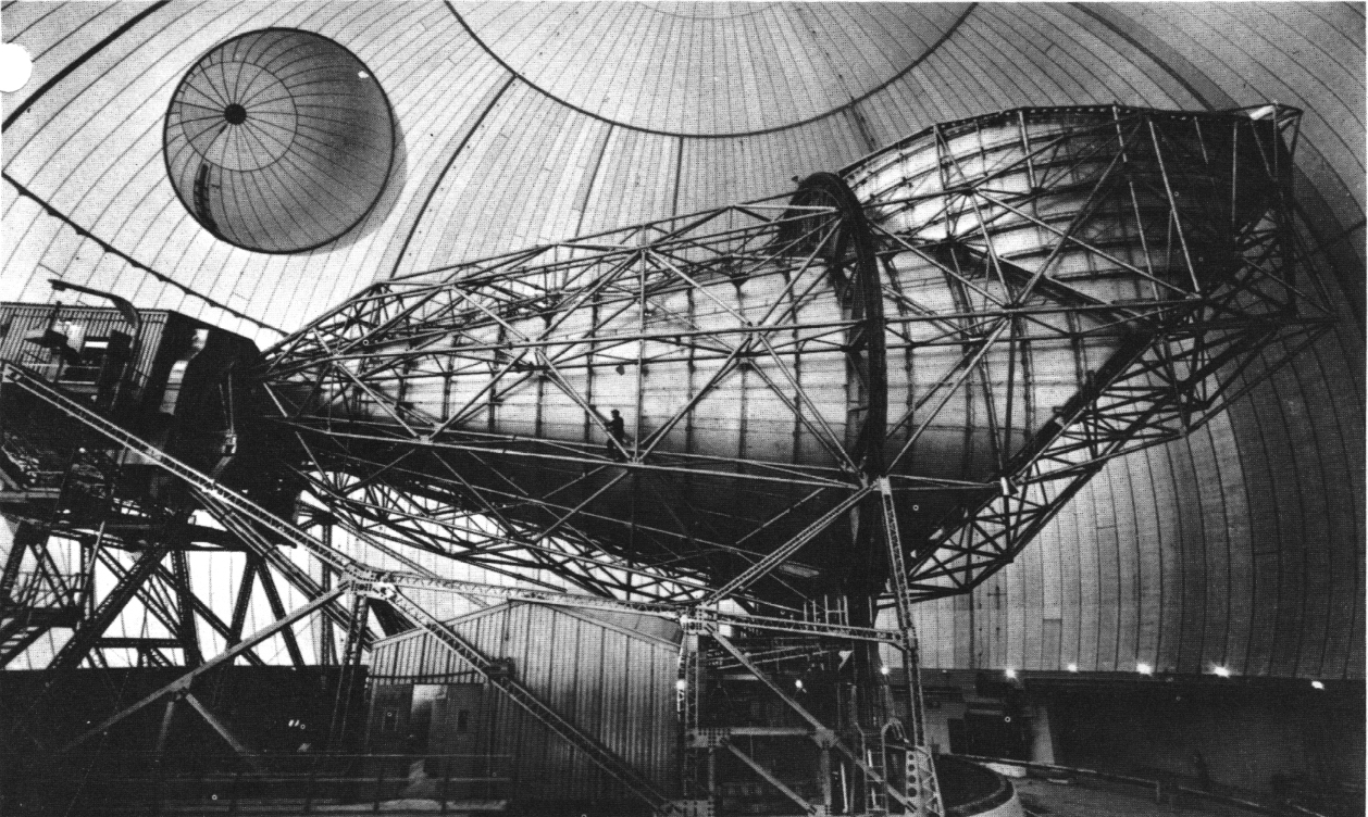 Huge horn antenna at the AT&T Andover satellite ground station at Andover, Maine, USA, used to communicate with the first direct relay communications satellite, Telstar. Also used with the Relay 1 satellite. Built in 1961, it provided the first experimental satellite telephone and television service between North America and Europe. The antenna was 94 x 177 ft. (29 x 59 meters) , and weighed 340 tons. To protect it from bad weather, it was enclosed inside a Dacron radome 160 feet (49 m) high, 210 feet (64 m) wide which weighed 30 tons. It was dismantled in the 1990s. This type of antenna is called a Hogg or horn-reflector antenna, invented by Albert Beck and Harald Friis in 1941 and further developed by David C. Hogg at Bell Telephone Laboratories in 1961. It consists of a flaring metal horn with a metal reflector mounted in the mouth at a 45° angle to the axis. The radio waves come from the satellite at a 90° angle to the horn and are reflected down the horn to the small building on the left, where they are received and amplified. The reflector is a segment of a parabolic reflector, so the antenna is equivalent to a parabolic dish fed off-axis. The advantage of this design over a standard parabolic dish is that it has very small sidelobes; that is, the horn shields the antenna from radiation coming from angles outside the main beam, such as ground noise, reducing the noise temperature of the antenna. Early satellites had weaker transmitters than modern satellites and required large antennas like this to communicate with them. Telstar was not in a geosynchronous orbit and passed overhead quickly in about 20 minutes, so the huge antenna had to be precisely steerable to track it across the sky as it passed. The antenna is mounted on a huge turntable in an altazmuth mount.